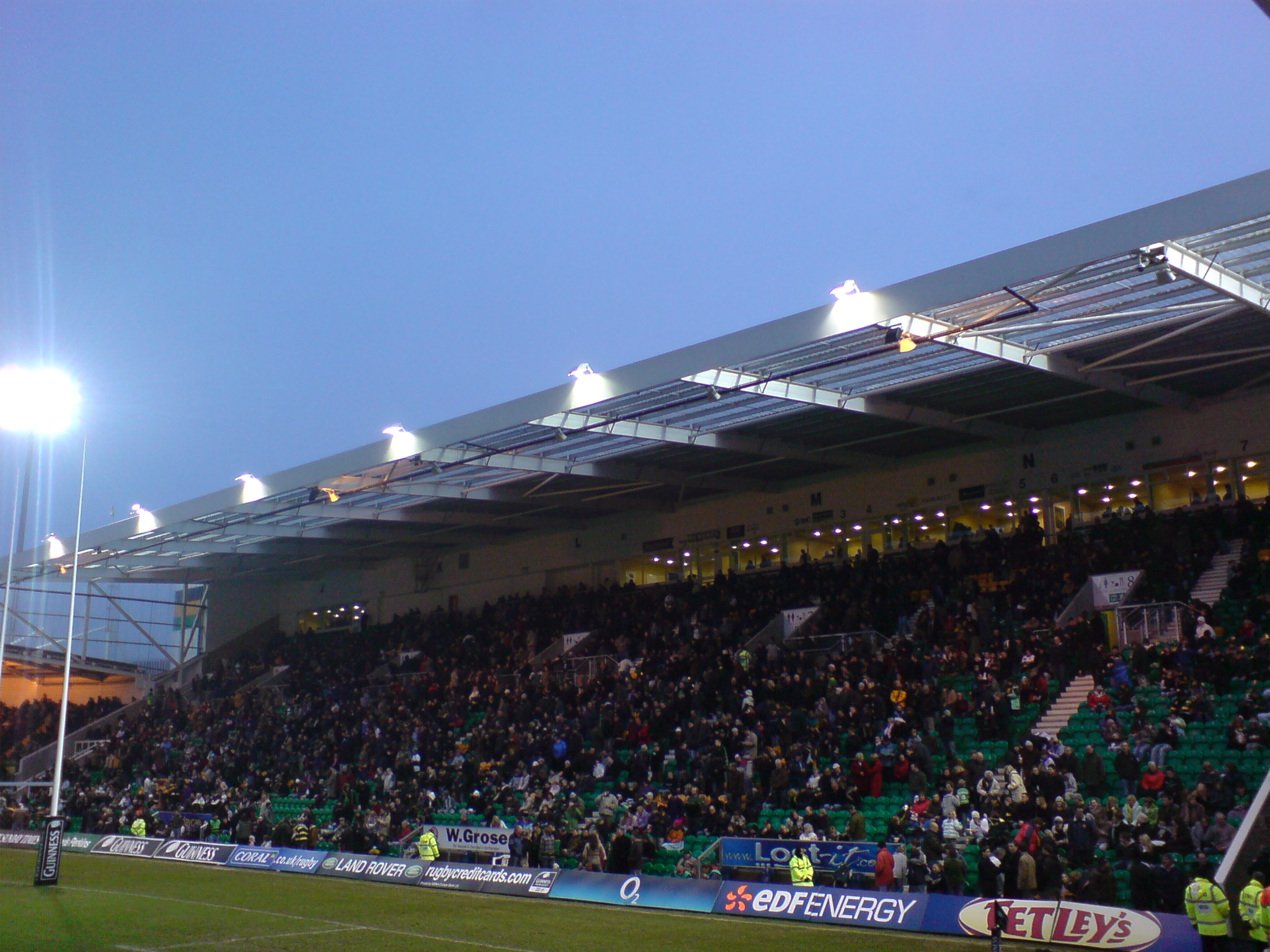 The South Stand at Franklins Gardens, home of Northampton Saints